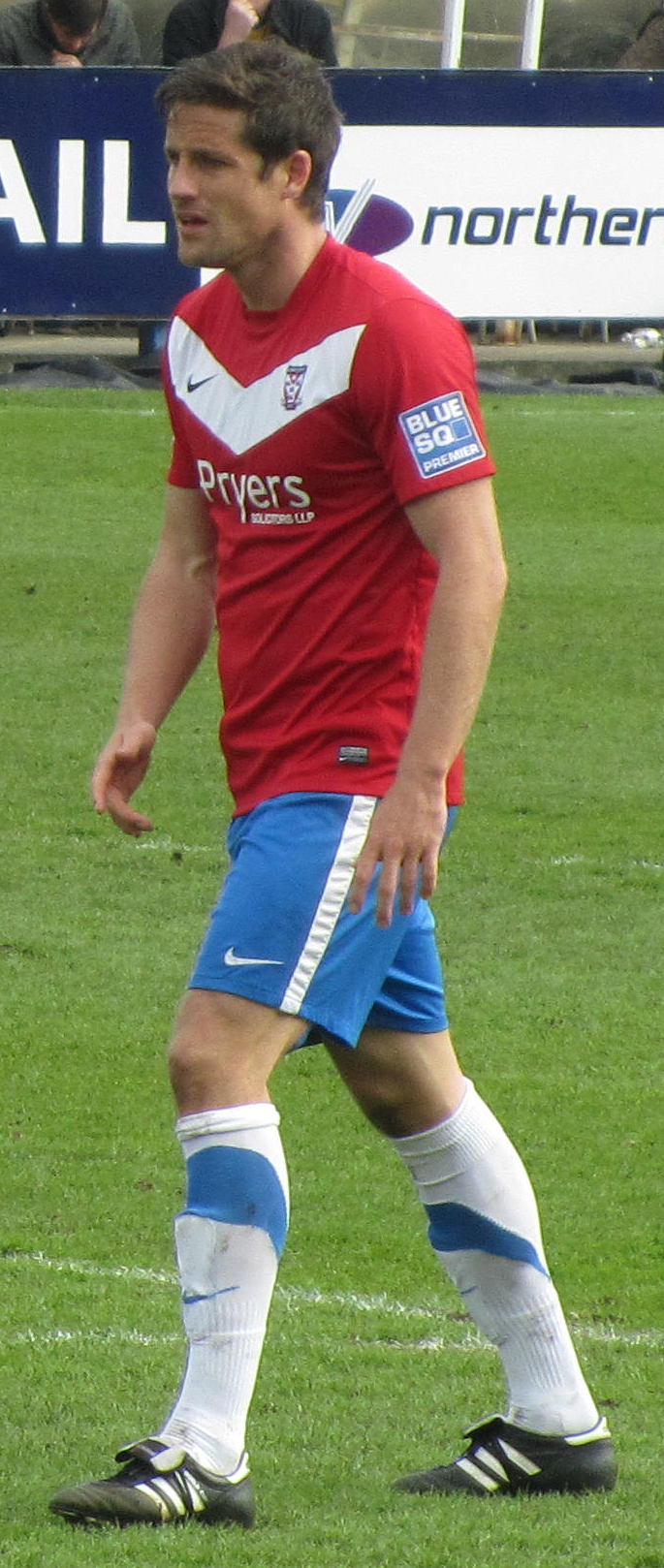 Chris Doig